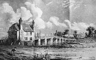 Datchet Bridge, also known The Divided Bridge half in wood and half in iron, illustrated in 1847 by J Chapman. Viewed from the Berkshire bank (iron side)